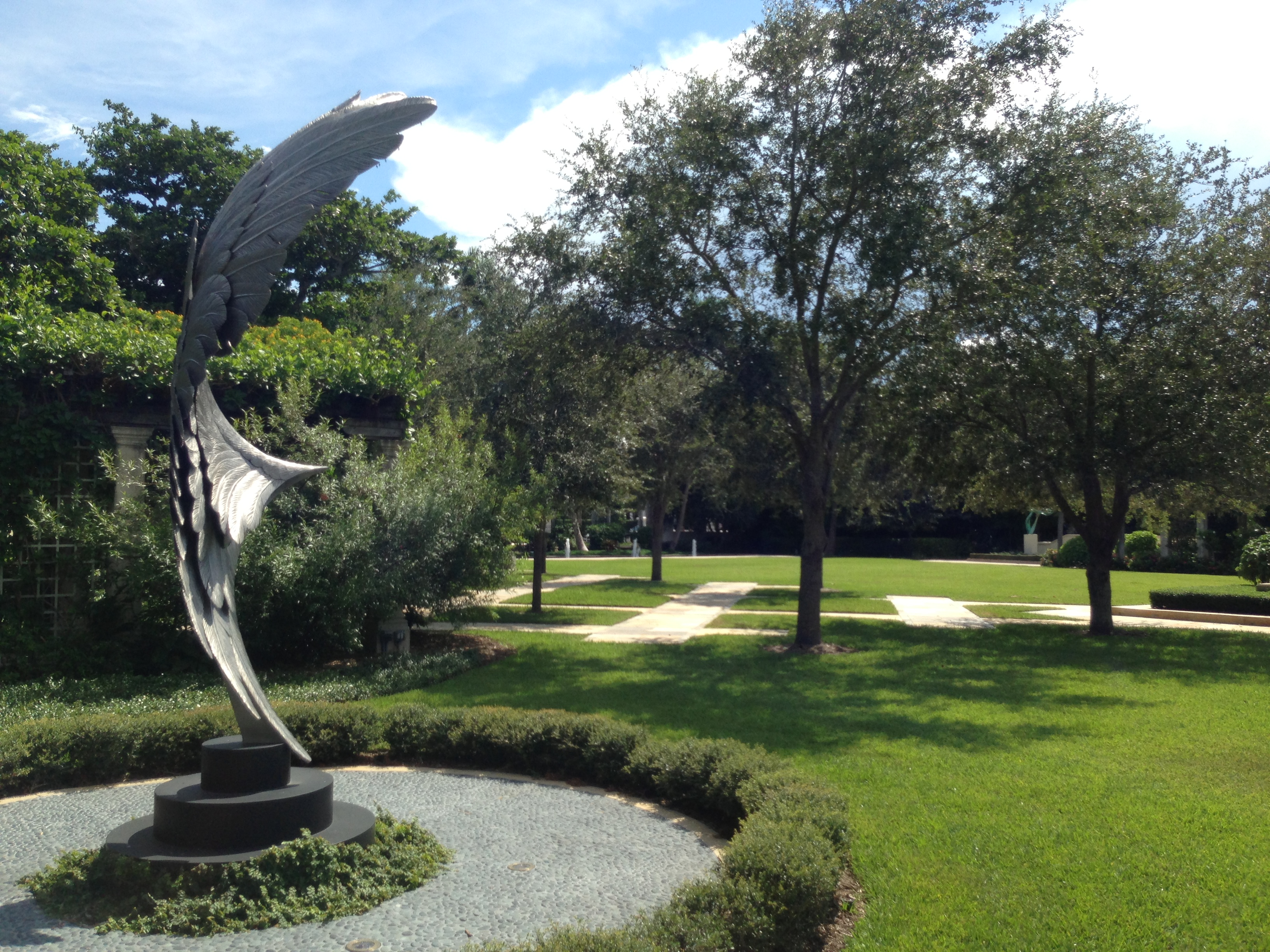 Society Of The Four Arts Garden Palm Beach Florida